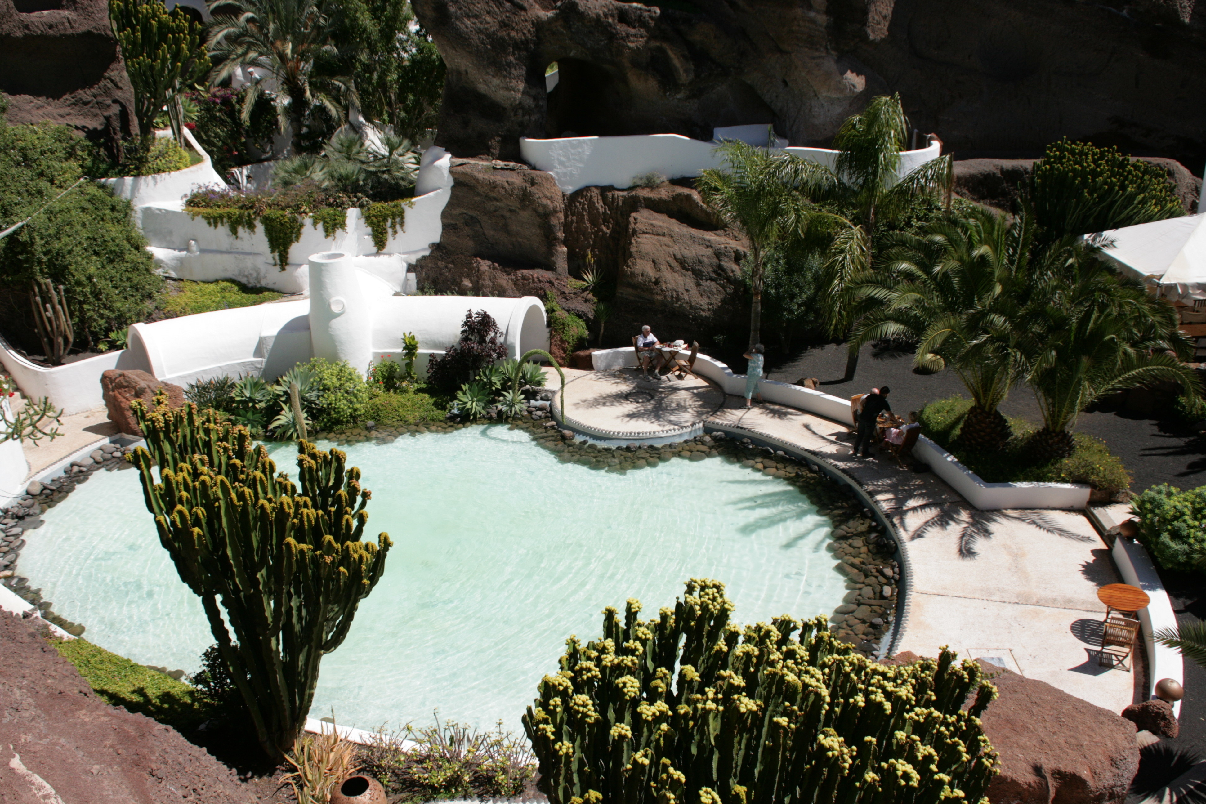 Museo Lagomar, Calle Los Loros in Nazaret, Teguise, Lanzarote, Canary Islands.